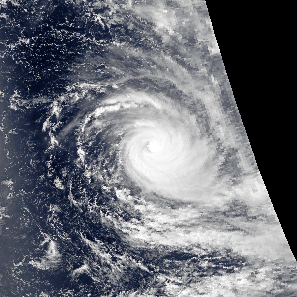 Tropical Cyclone Bella on January 30, 1991